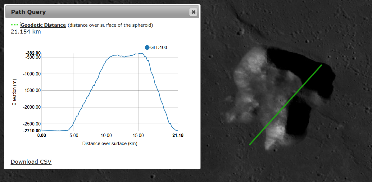 A line trace of the Mons Piton on the Moon, with an elevation graph of the line, inset, from Lunar Reconnaissance Orbiter data. Other information This is a screenshot of NASA PDS data from the Lunar Reconnaissance Orbiter, curated by Arizona State University at their LROC archive.